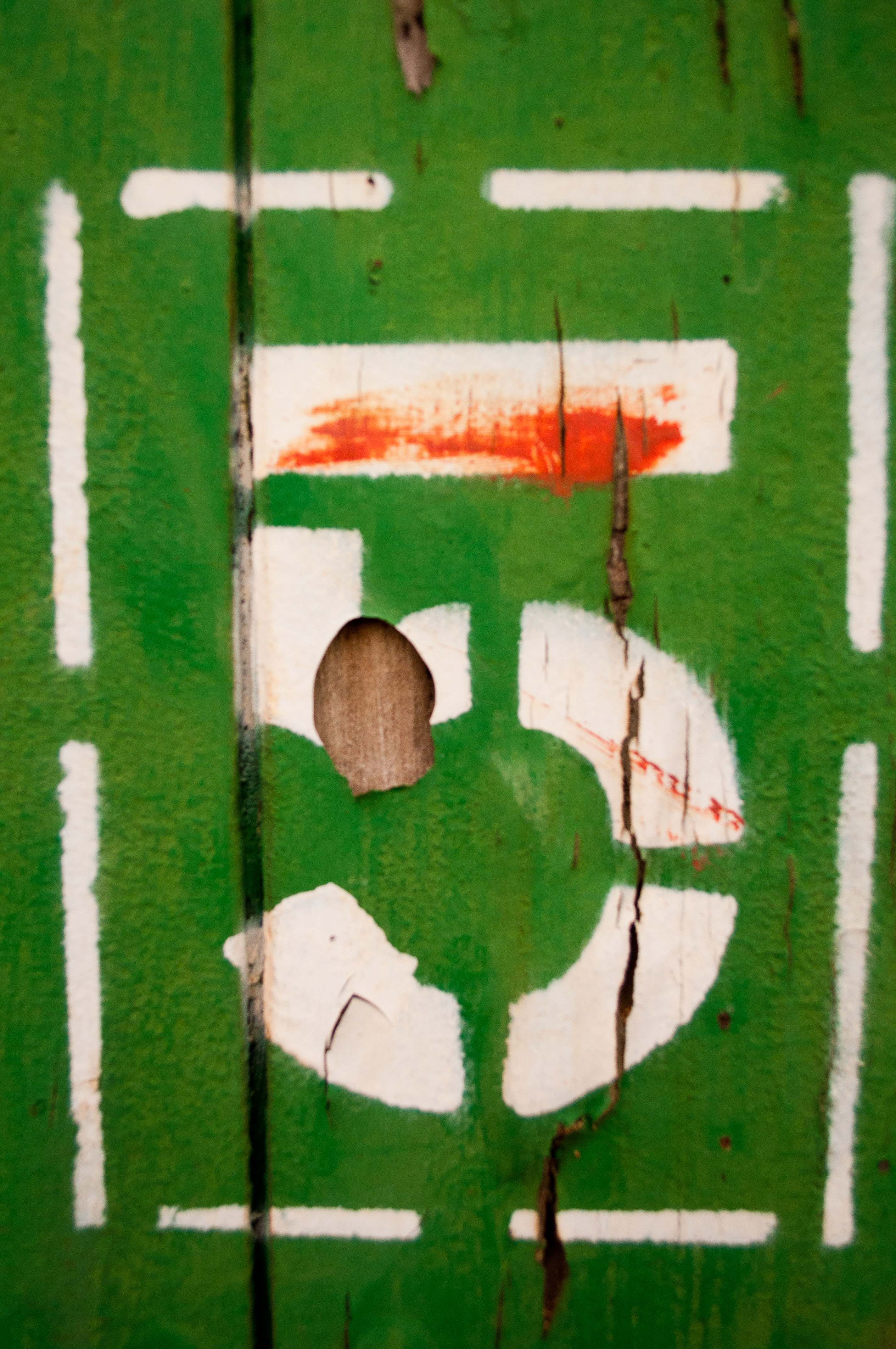 A number five painted on a green wall.